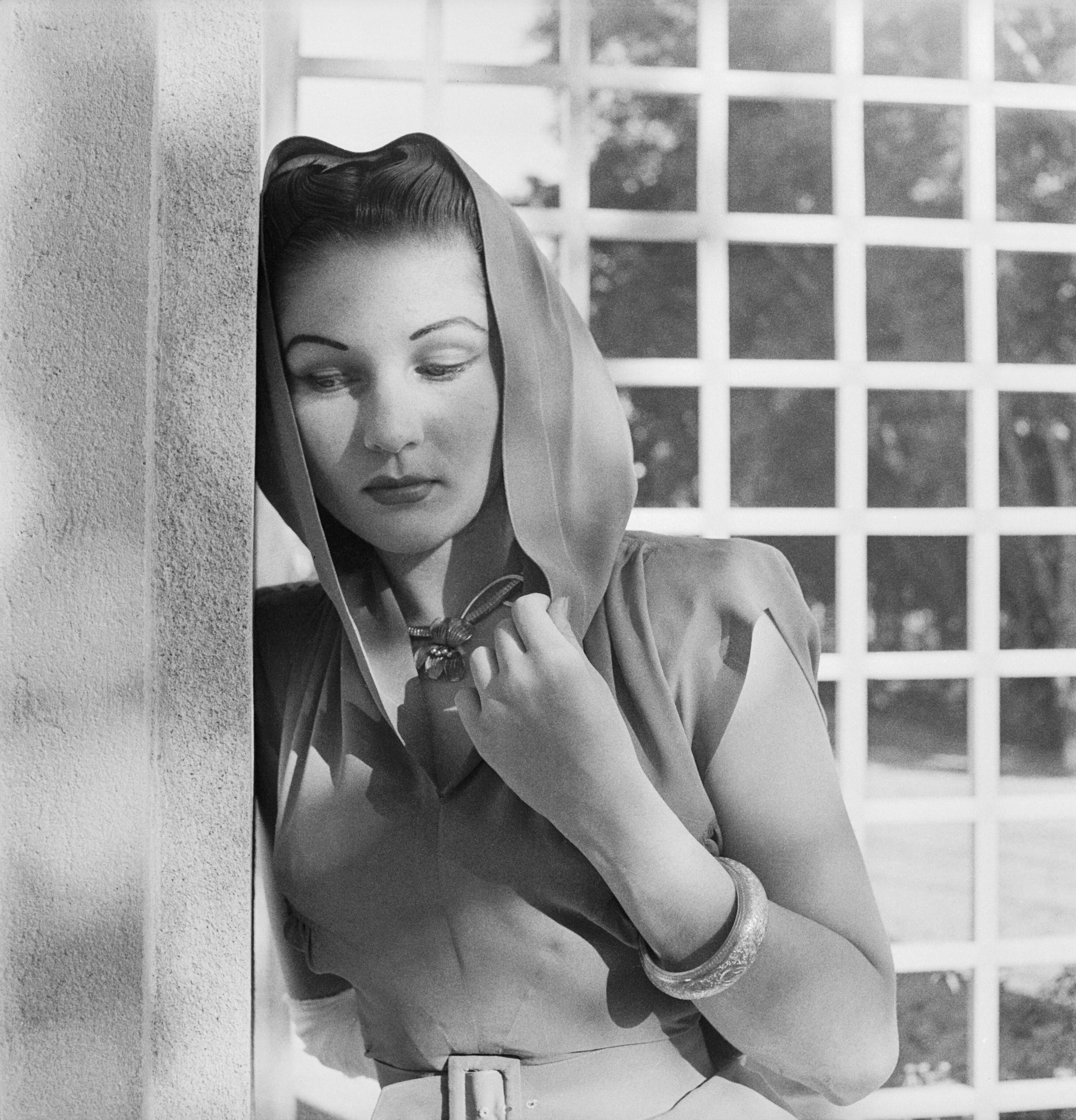 Cecil Beaton Photographs- Political and Military Personalities Political Personalities: Half length portrait of Queen Fawzieh, first wife of Shah Mohammed Reza Pahlevi of Iran, in Teheran.